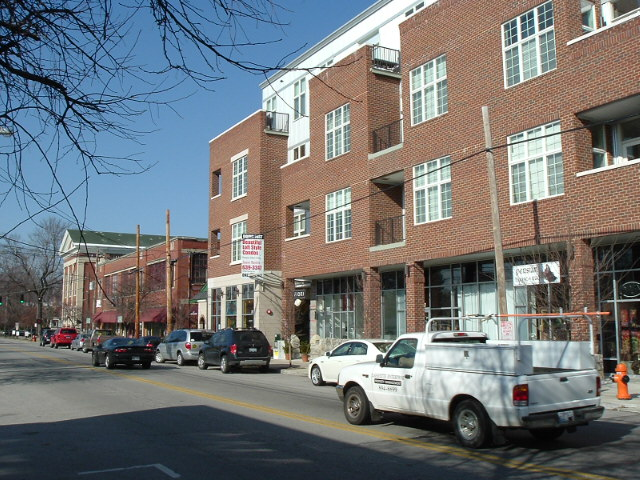 New condos on Frankfort Ave LOUKY